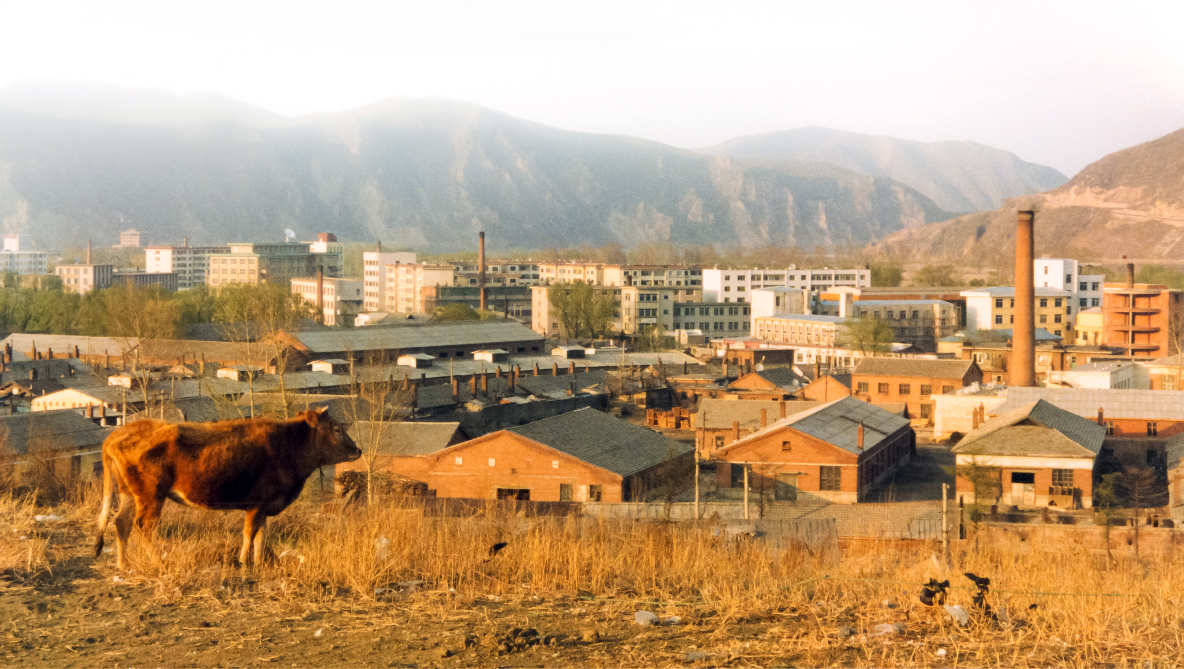 Best on black! Another one from my APS film archive, now scanned. I just see I forgot to correct the date in the EXIF - this one dates from spring 2001, about two thirds of the way through I year I spent teaching in Harbin, China. We had a few days holiday, I think in April, and headed across to the North Korean border in the belief there was a Chinese train route that took you, in sealed carriages, through North Korea and back into China. If there was, the chaps at the station weren't for selling us tickets on it. Instead, we did manage to cross for 5 minutes at a bridge just down and right of this shot. There was a large arch with telescopes for peering across at the town across the river - steam trains, paintings of the Il Sung family, etc. Very interesting and 20RMB well spent. The sky in this scan was severely degraded, so I added a +1 stop GND to better blend it, hence the overexposed effect. Maybe I've overdone it. It looks best when the image is viewed on black, even if the quality doesn't quite carry. Oh for 21MP back then! But there we go! Lots of plastic bags in the dry grass - sadly a feature of Northern China. Hope everyone is having a great weekend! Tweet!